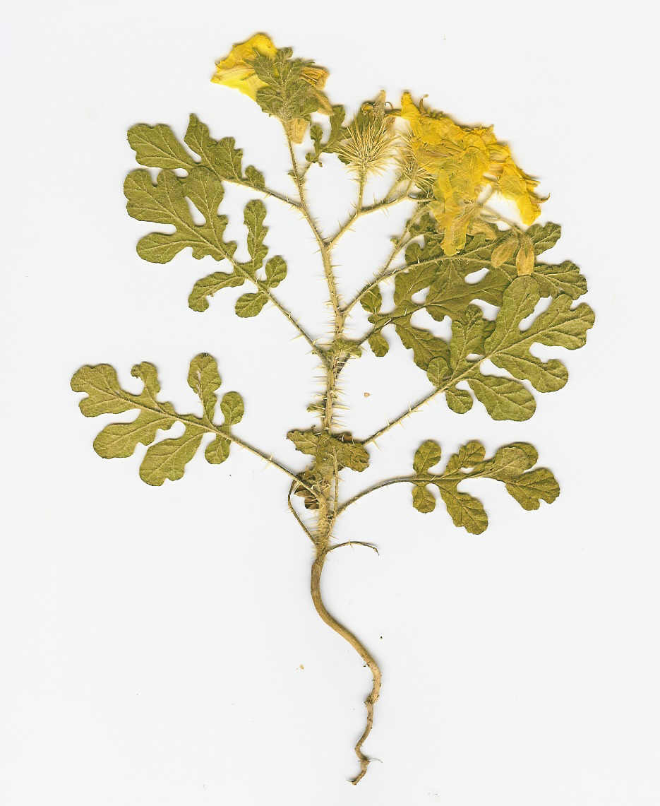 Solanum rostratum (plant). Location: Maui, Upper Kimo Rd Kula